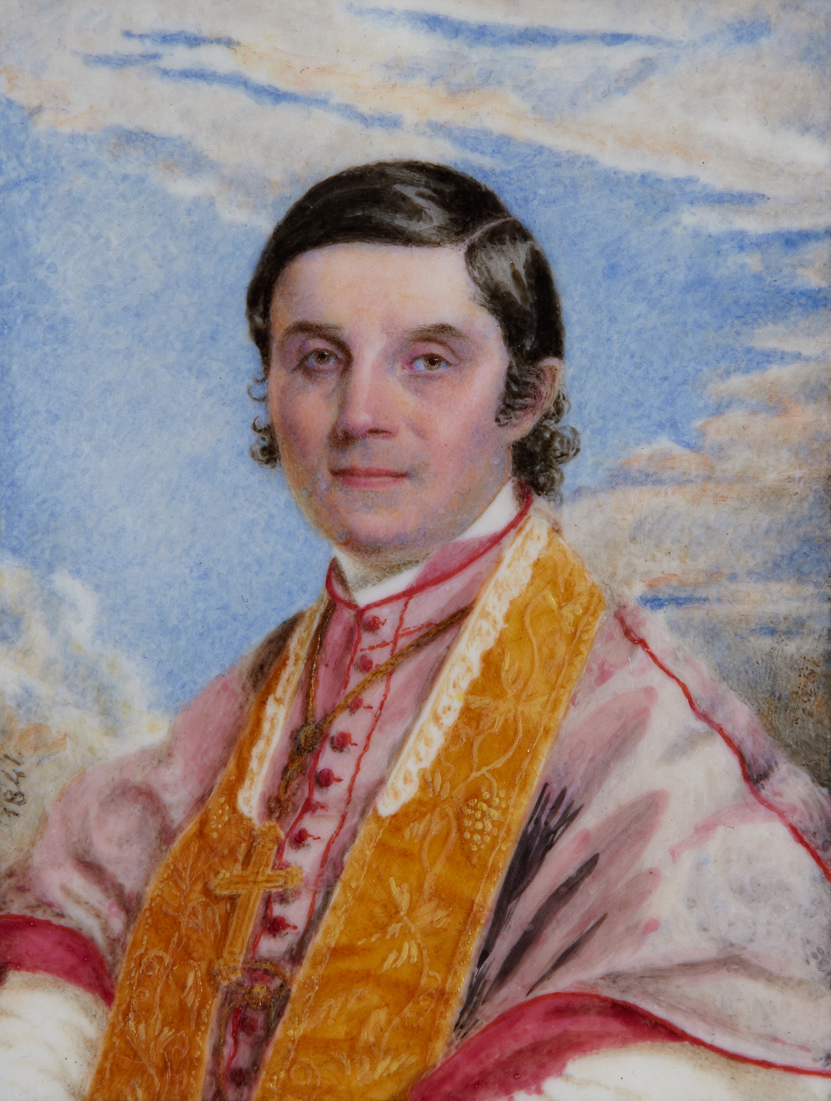 Trail, Agnes Xavier; Mrs Hutchison; Scottish Catholic Archives; by Agnes Xavier Trail an Edinburgh nun guess date of all paintings as 1850